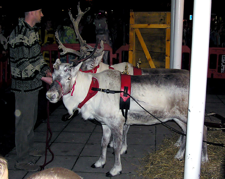 Two of the Scottish reindeer that pulled Santa’s sleigh at the switching on of Yate Christmas lights for 2004. Yate is near Bristol, England. Taken by Adrian Pingstone in November 2004 and released to the public domain. Reindeer at Christmas